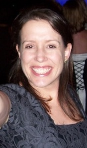 Photo of author Julia Quinn